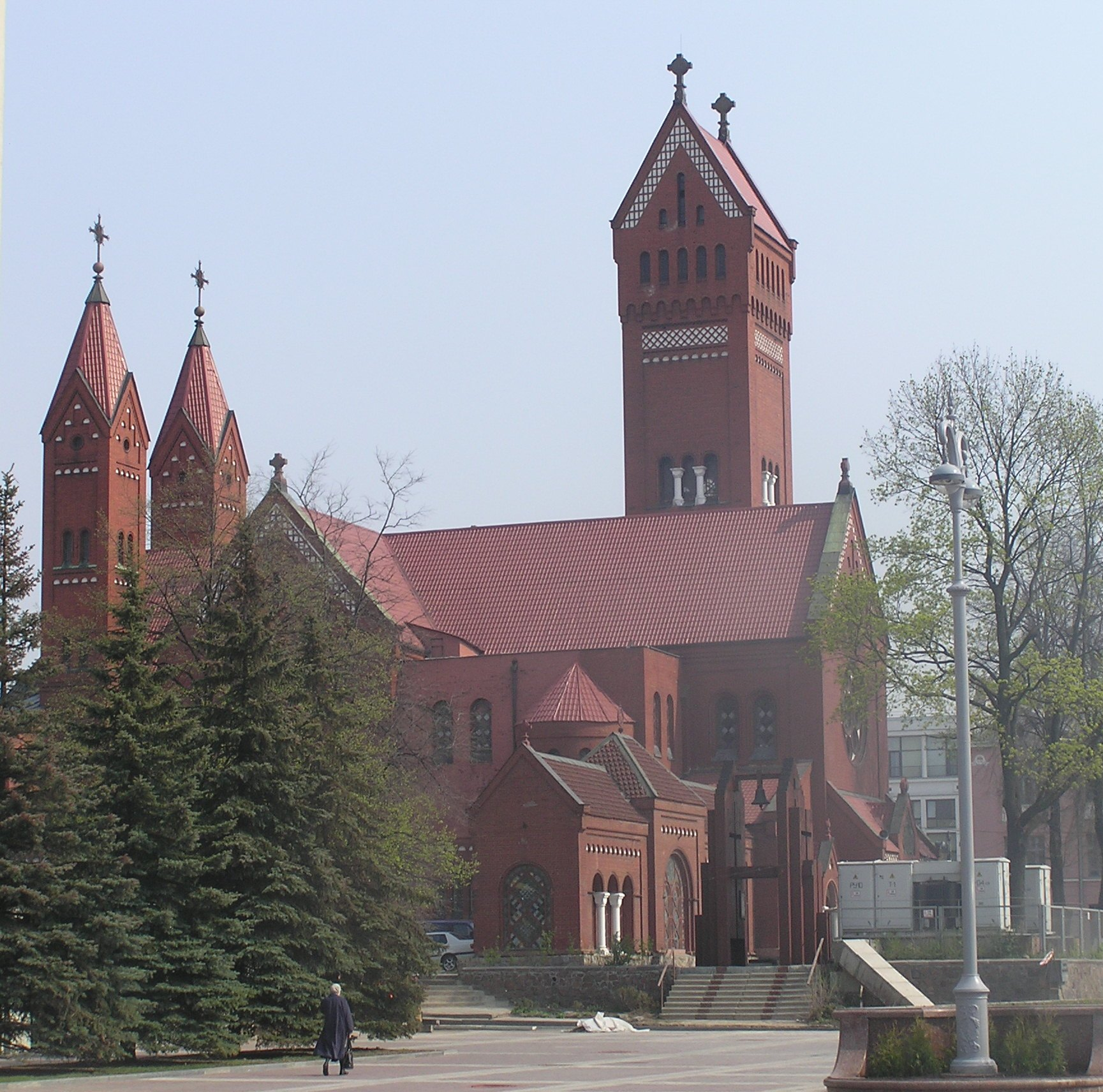 Church of Saint Simon and Helena, Minsk, Belarus.